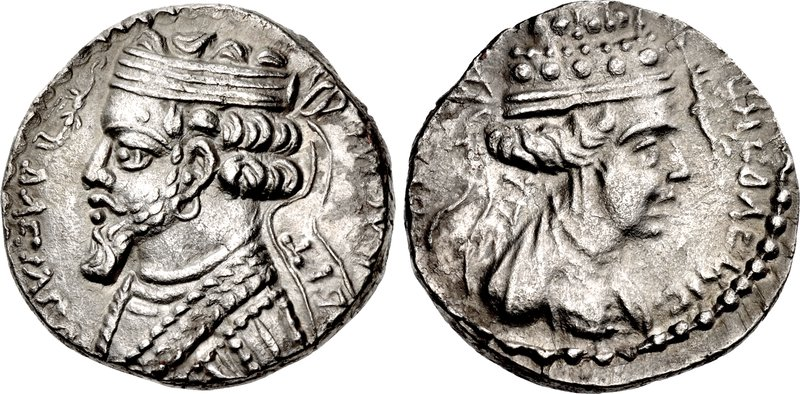 Coin of Phraatakes (Phraates V) with Musa, Seleucia mint.